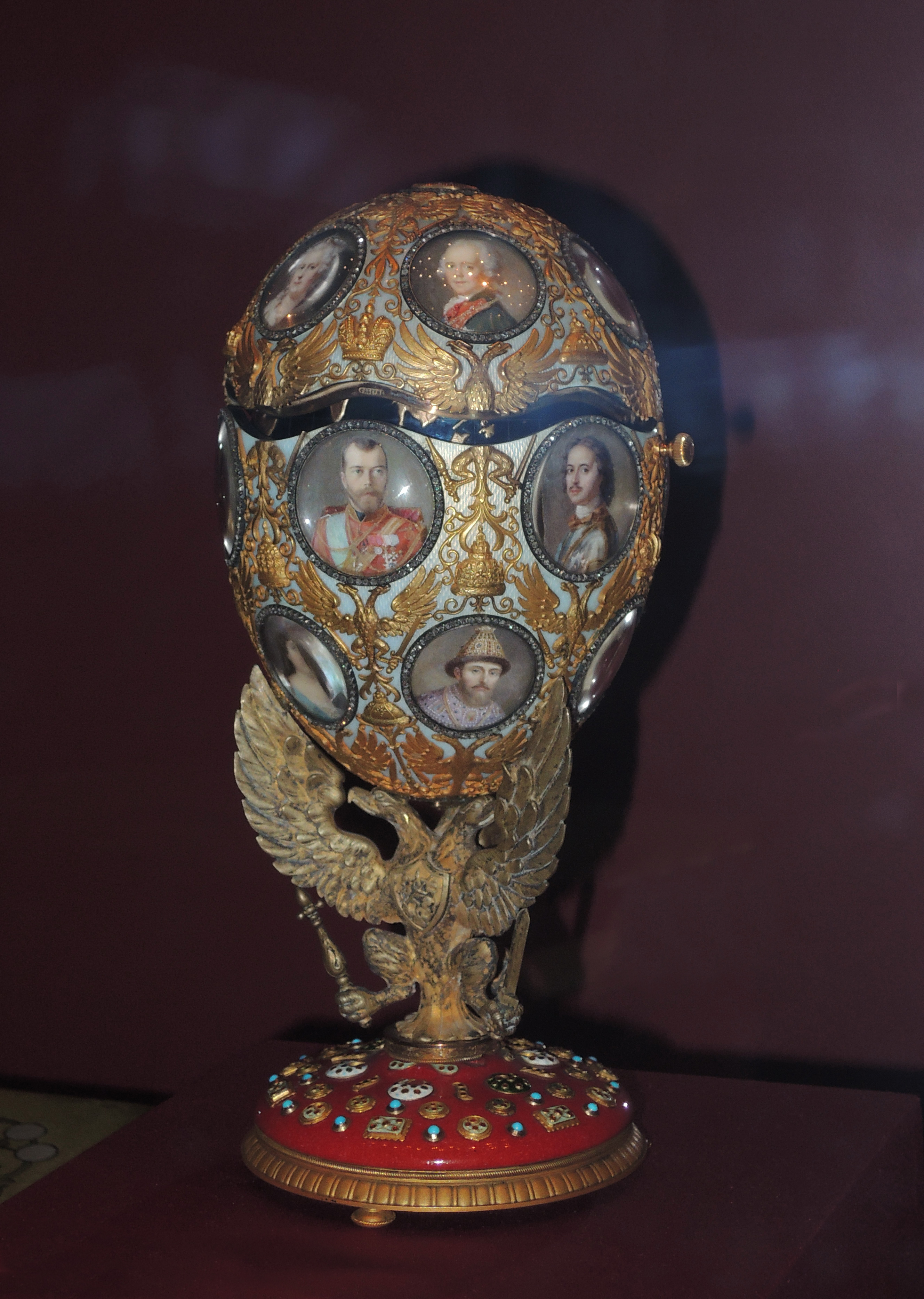 Romanov Tercentenary Egg by Fabergé 1913